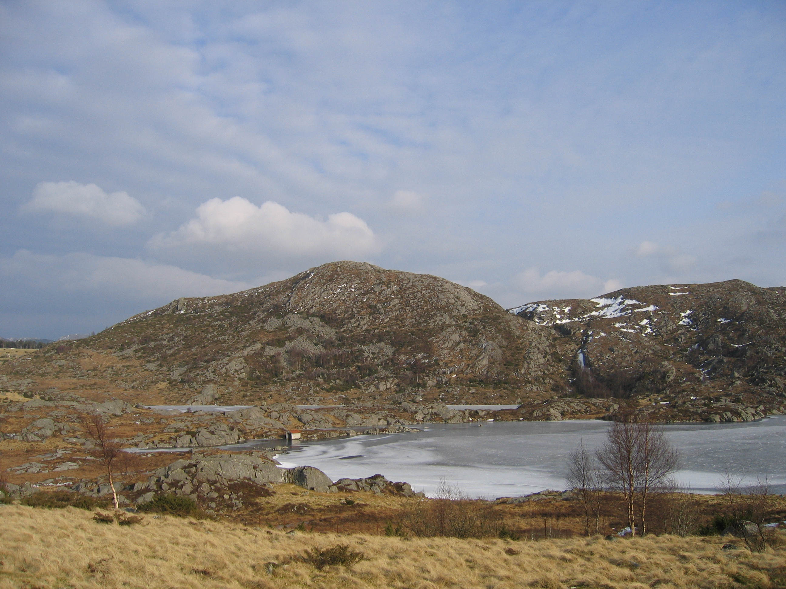 Storafjedle in the middle.Eikefjedle right.Langavatnet in the front.